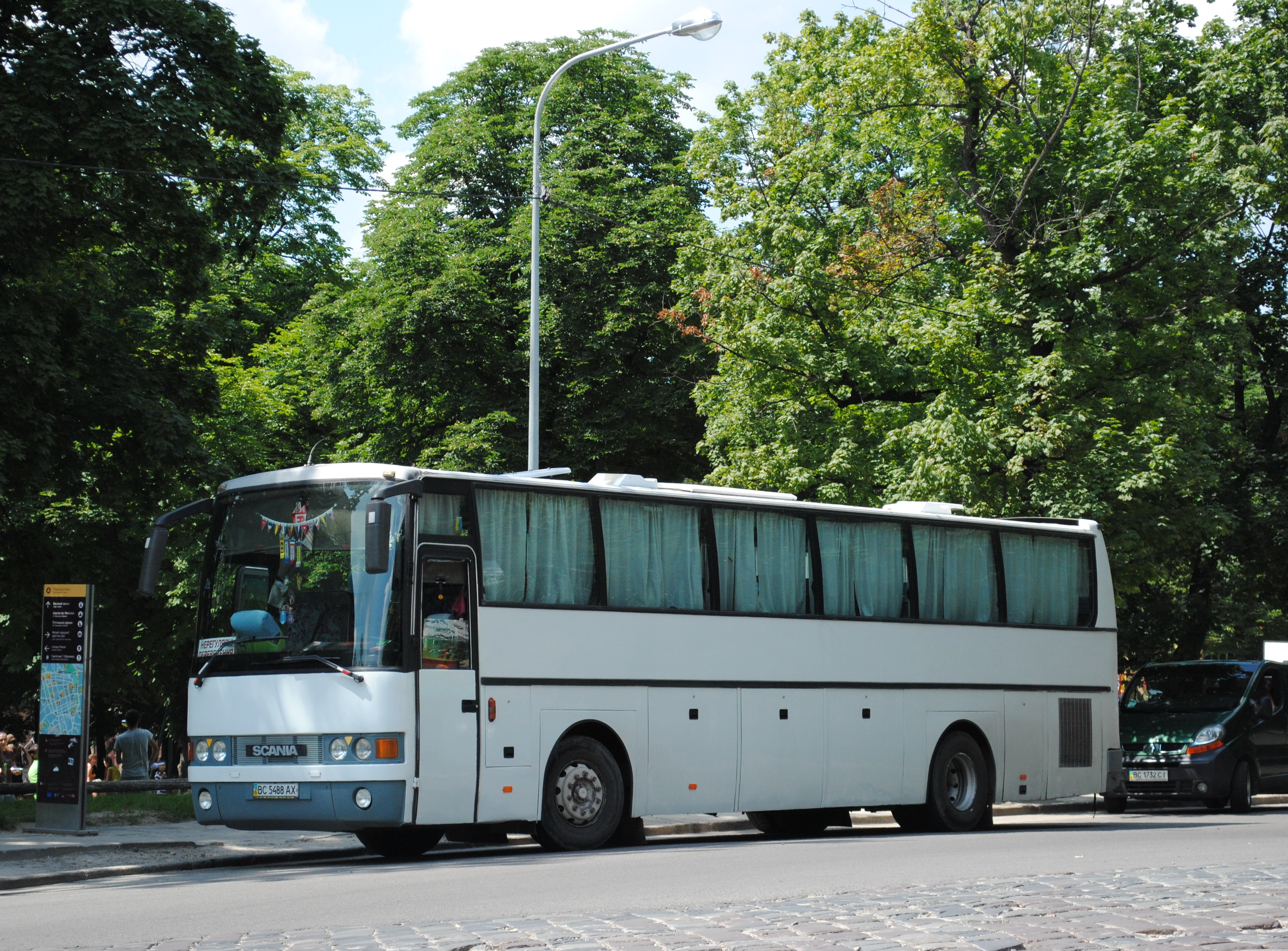 Irizar Everest bus in Lviv, Ukraine